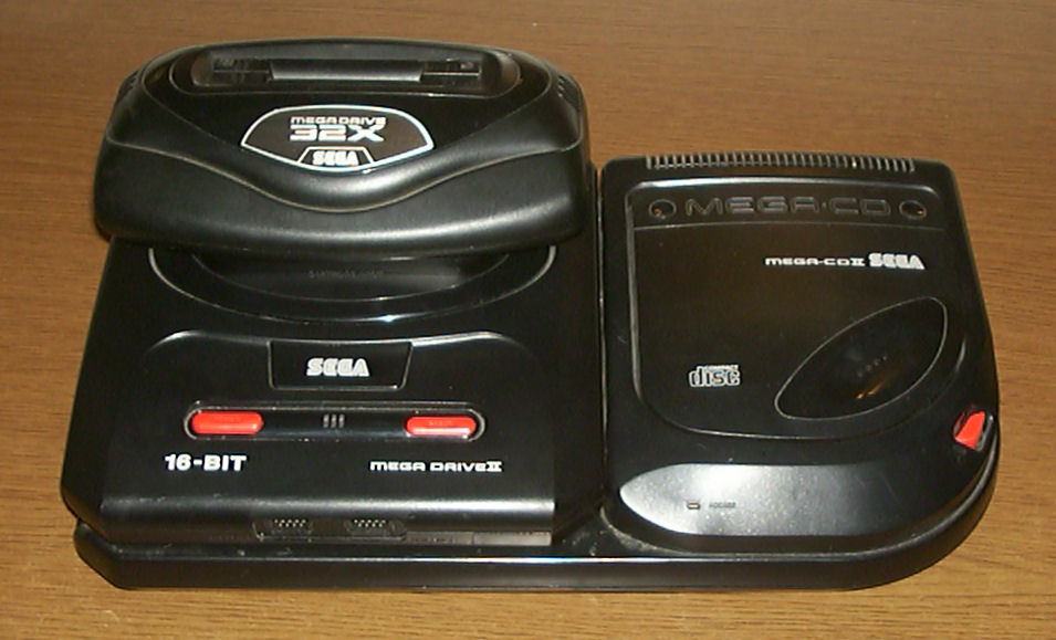 A PAL Mega Drive II combined with a PAL Mega-CD II and a PAL 32X to build up the Mega-CD 32X (sometimes also called Mega Drive 32X CD ).